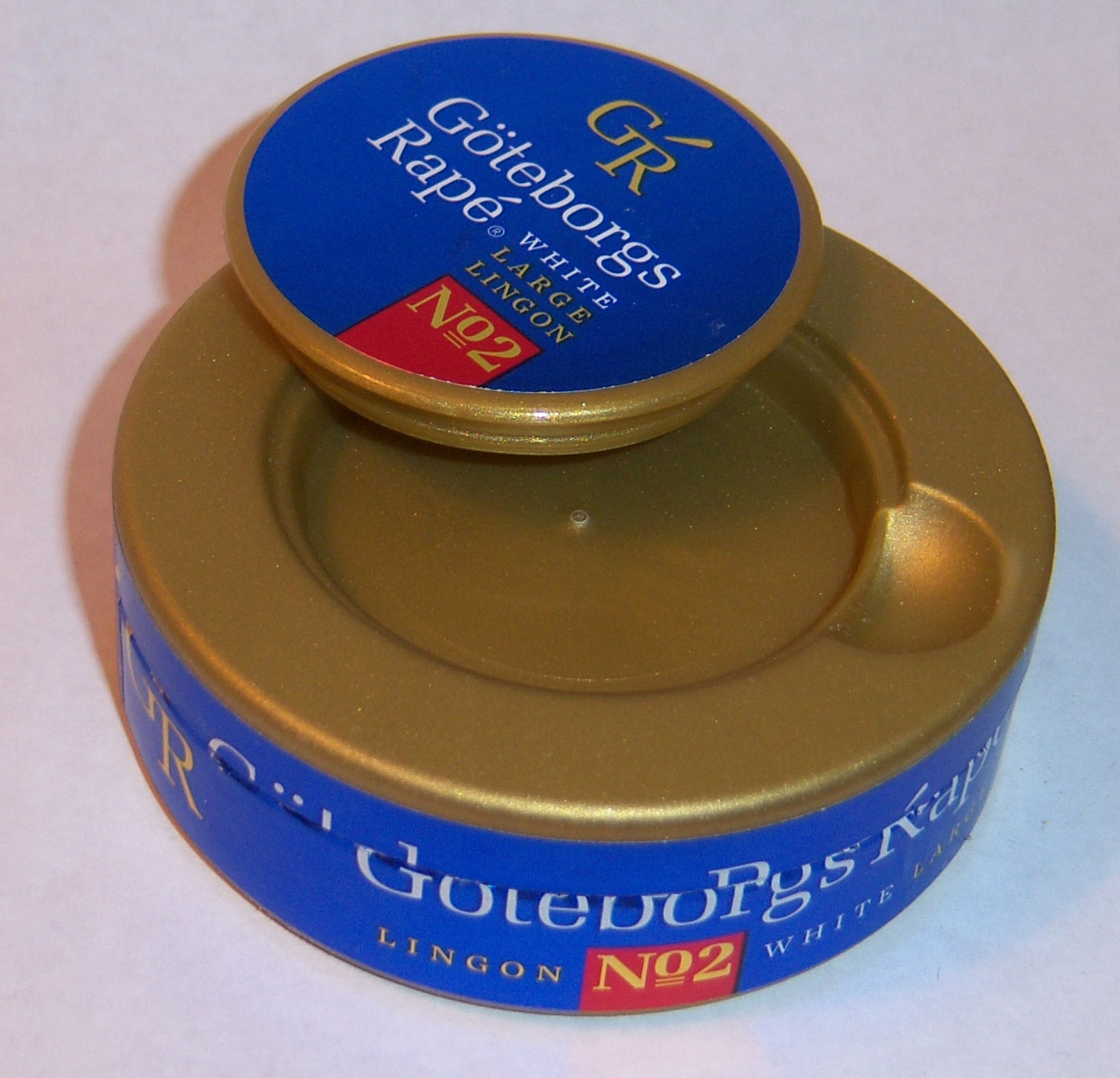 Snus can, showing open "ashtray" lid, used for spent portions.